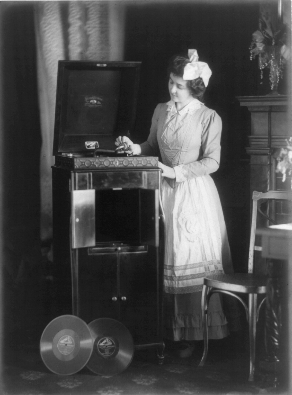 Woman, with large bow in her hair, putting needle on record on a "Victrola" brand phonograph